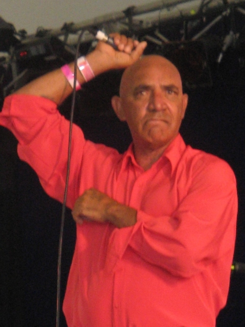 Photo of Vic Simms